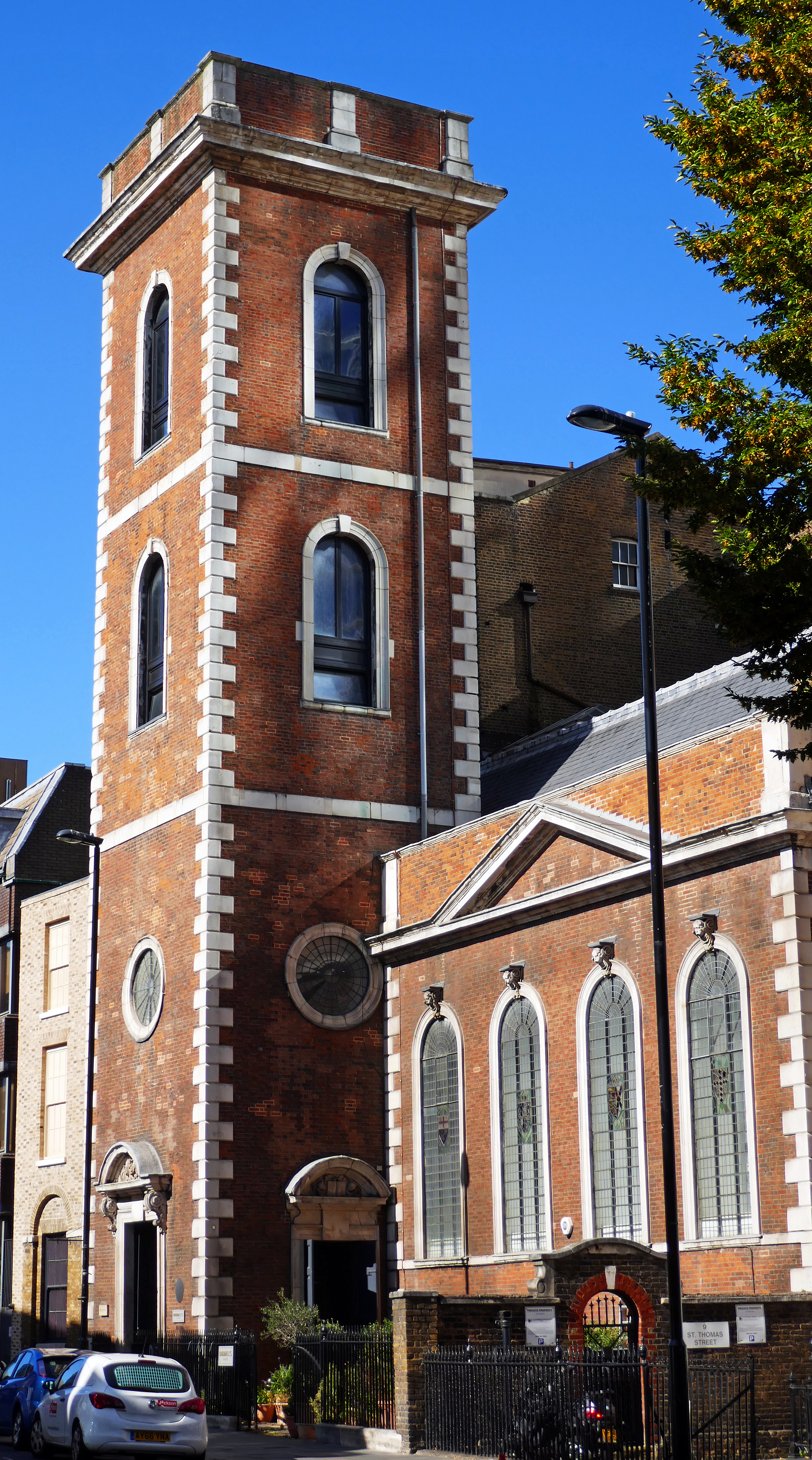 The old St. Thomas Church, a long-deconsecrated space built in the 1690s, contains the Old Operating Theatre Museum and Herb Garret (the building with the single window to the right of the bell tower), part of the original St. Thomas Hospital